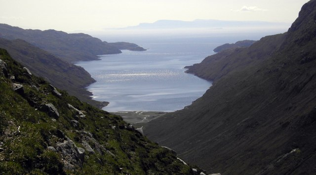 Loch Claidh The head of Loch Claidh from Carn Ban.